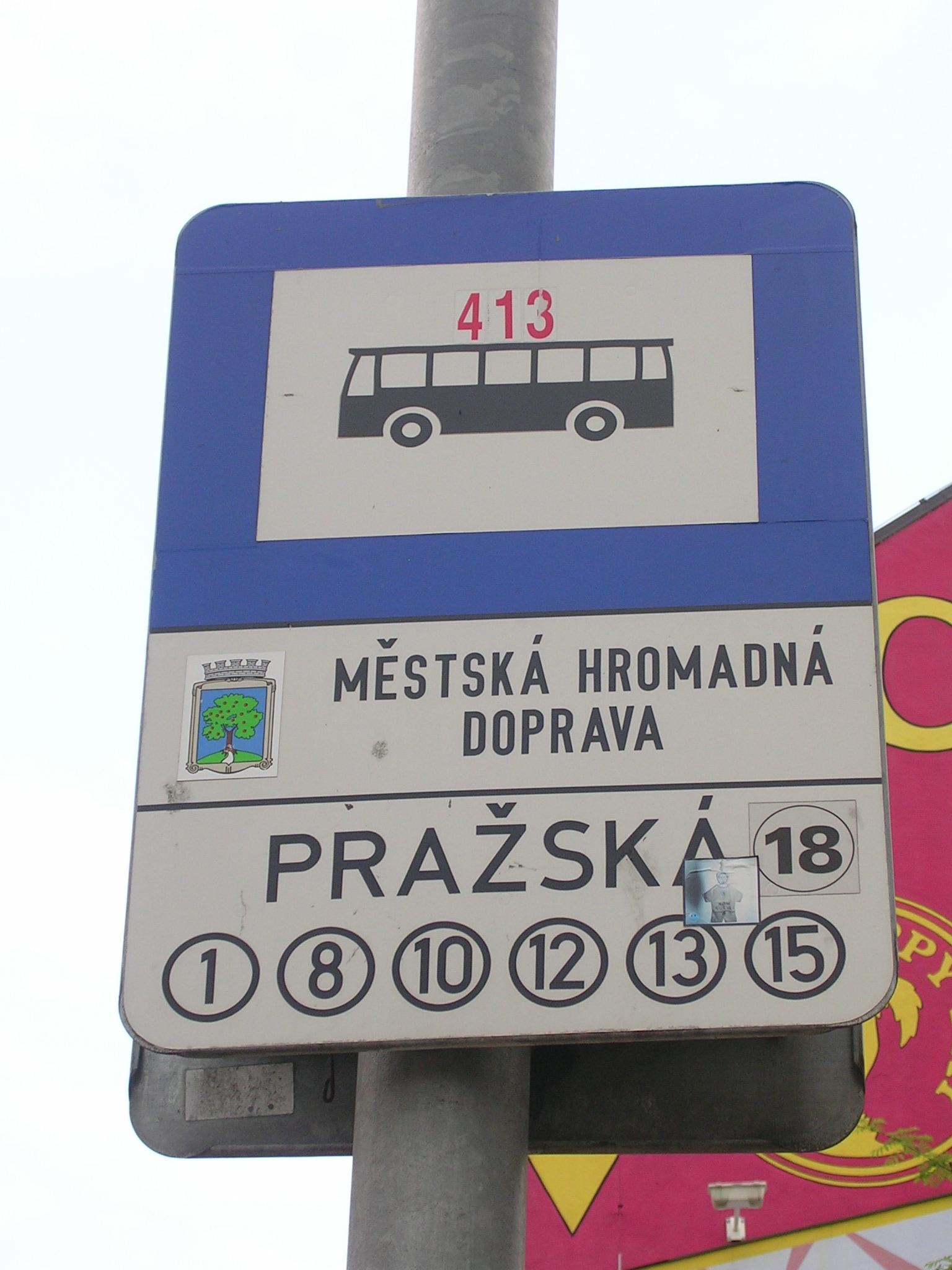 Jablonec nad Nisou. The Czech Republic. Bus stop sign.